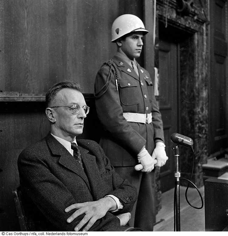 Arthur Seyss-Inquart at Nurenberg Trial